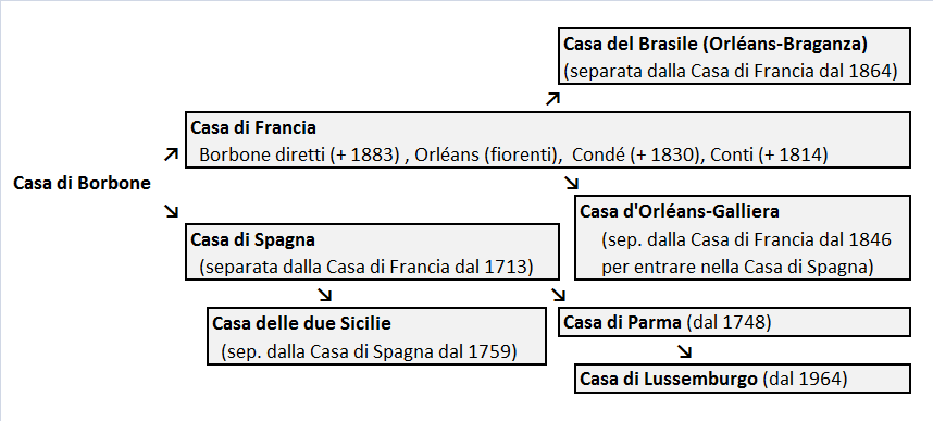 The several branches of the House of Bourbon (in Italian)